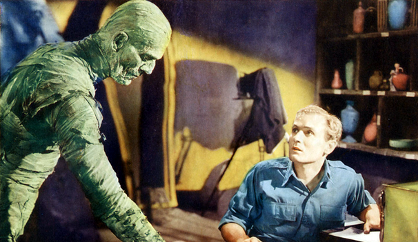 Cropped and edited lobby card for The Mummy (Universal, 1932), taken from a PD theatrical poster. Image is assumed to be in the public domain due to lapsed copyright.